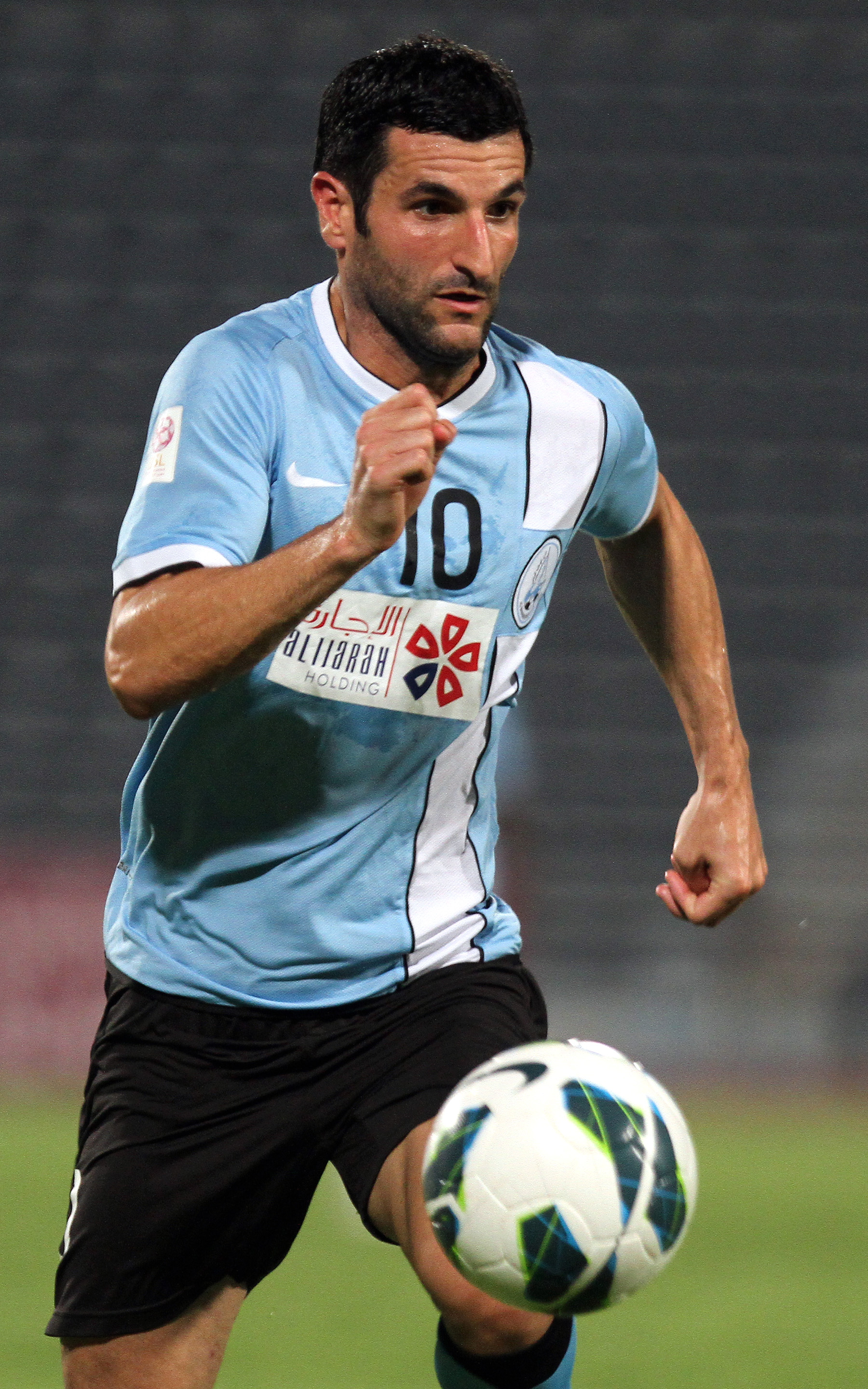 Al Wakrah's French professional Pierre-Alain Frau controls the ball during a Qatar Stars League match. Picture by Vinod Divakaran